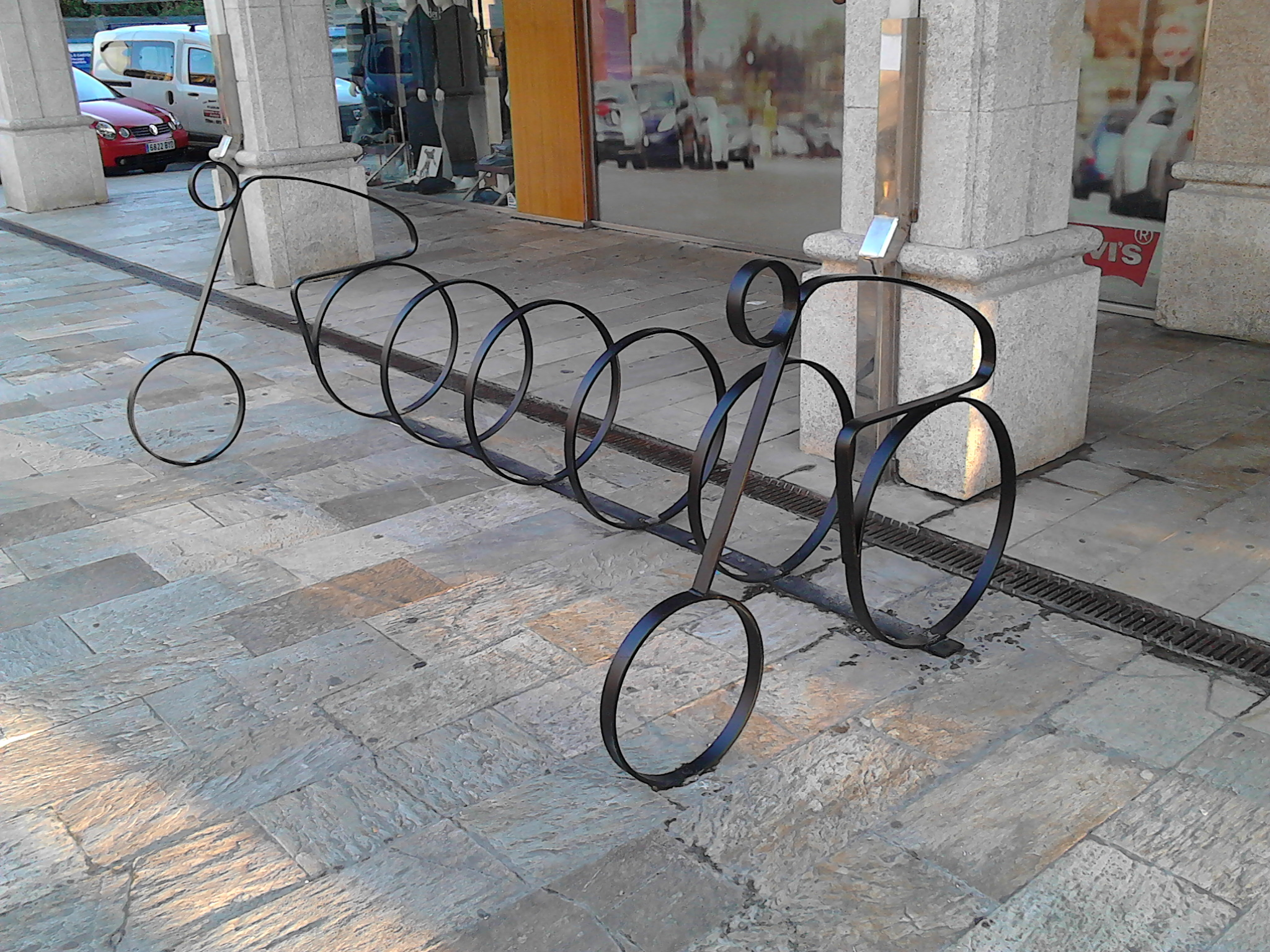 bike parking in Ribadeo. Picture on 20170919